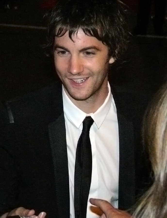 Teen Heartthrob Jim Burgess Signing Autographs out Front of Massey hall before the Tiff 08 Premiere of Fifty Dead Men Walking Check out More great pics and Video at